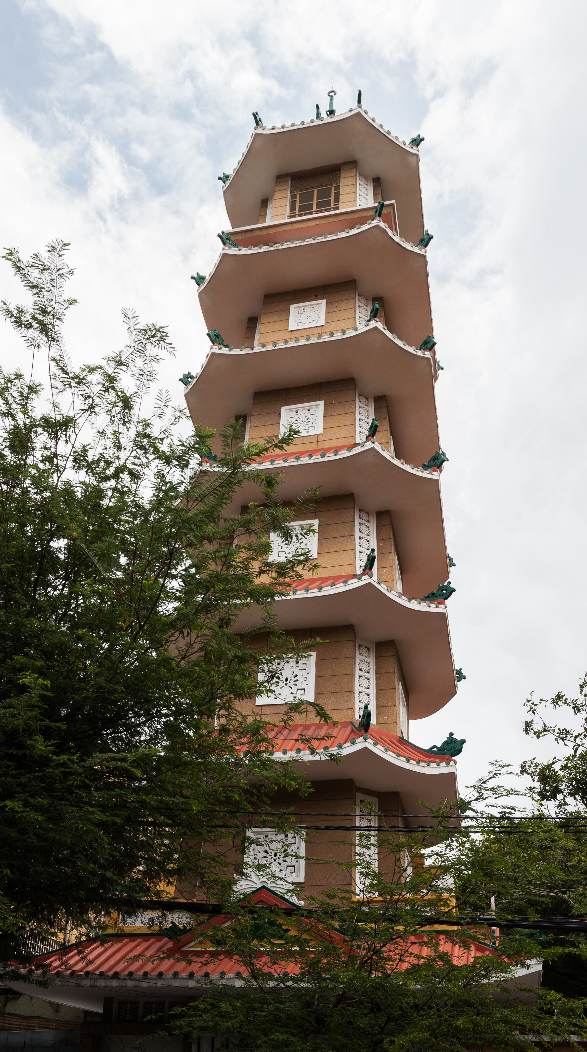 Xa Loi Pagoda, Ho Chi Minh City, Vietnam